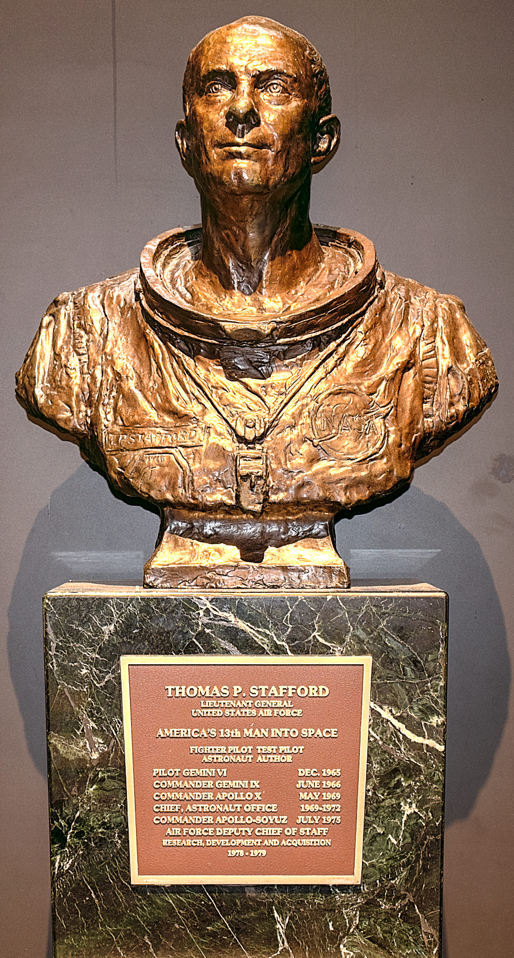 Bust of Thomas P Stafford at the National Museum of the United States Air Force